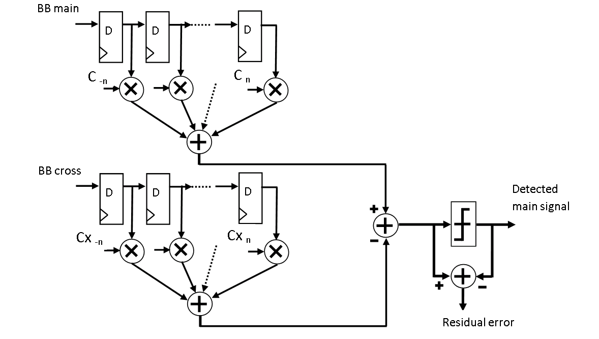 XPIC ex3